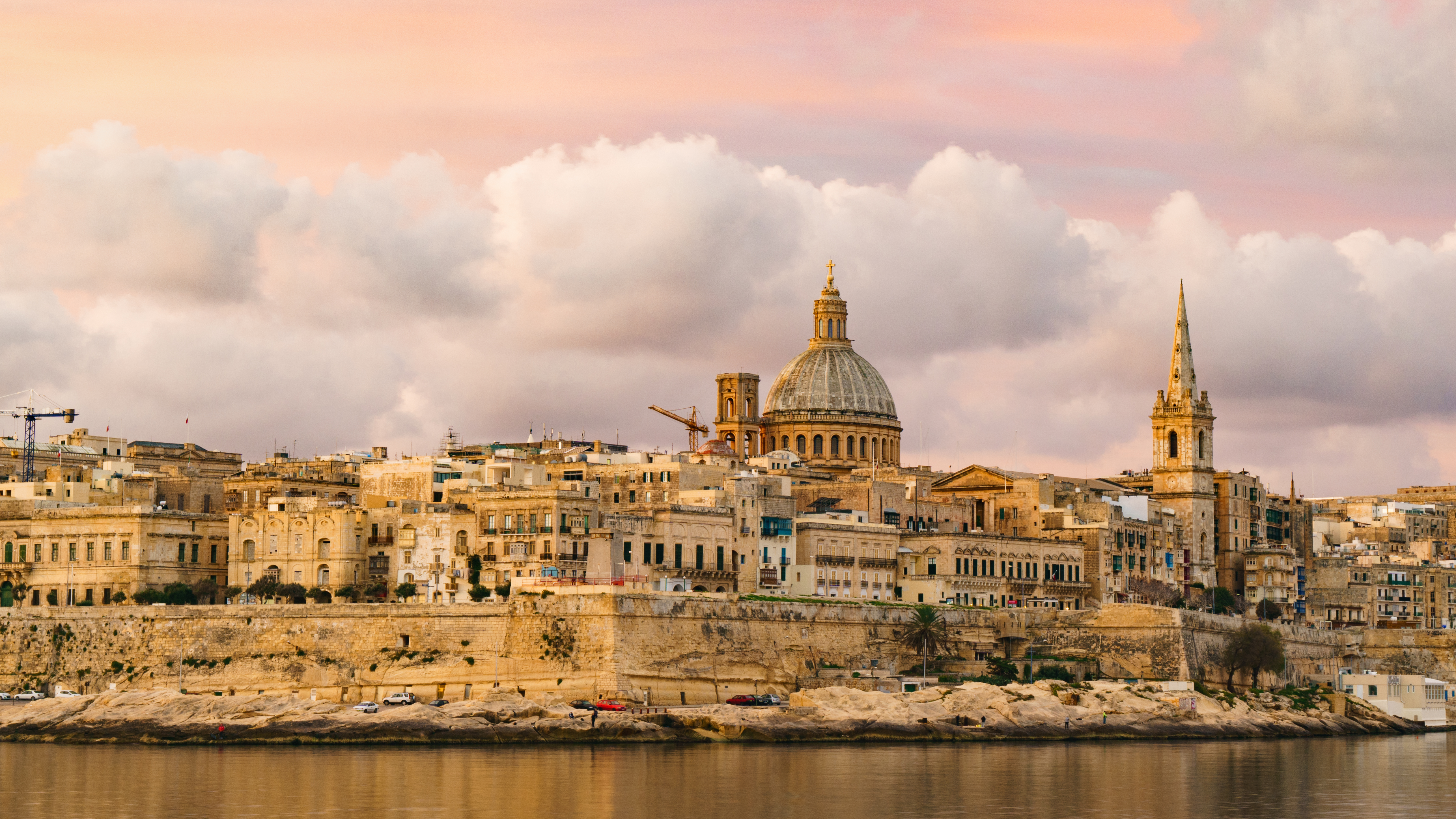 Basilica of Our Lady of Mount Carmel, Valletta. This media is about Maltese cultural property with inventory number 00556.